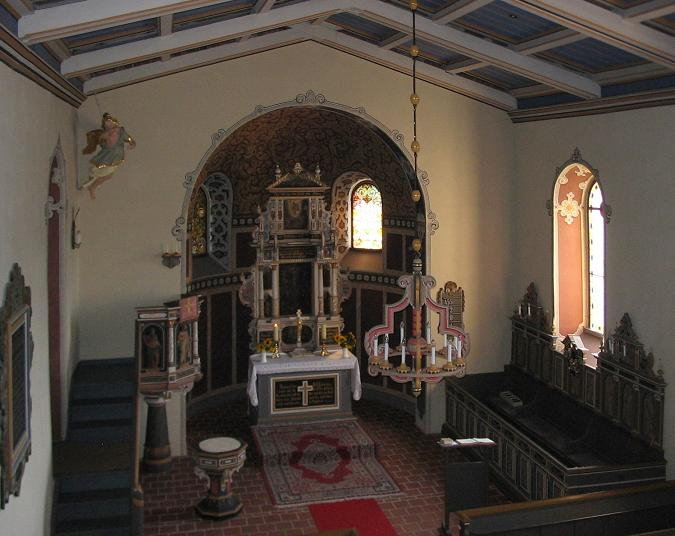 Stonechurch in Siethen, built in the 13th/14th century, interior. Siethen is a part of the town Ludwigsfelde in the district Teltow-Fläming, state Brandenburg, Germany.